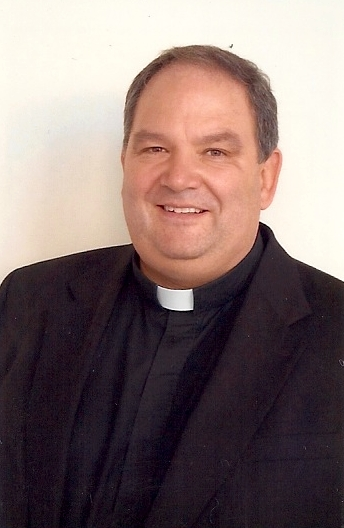 Roman Catholic Bishop Bernard Hebda